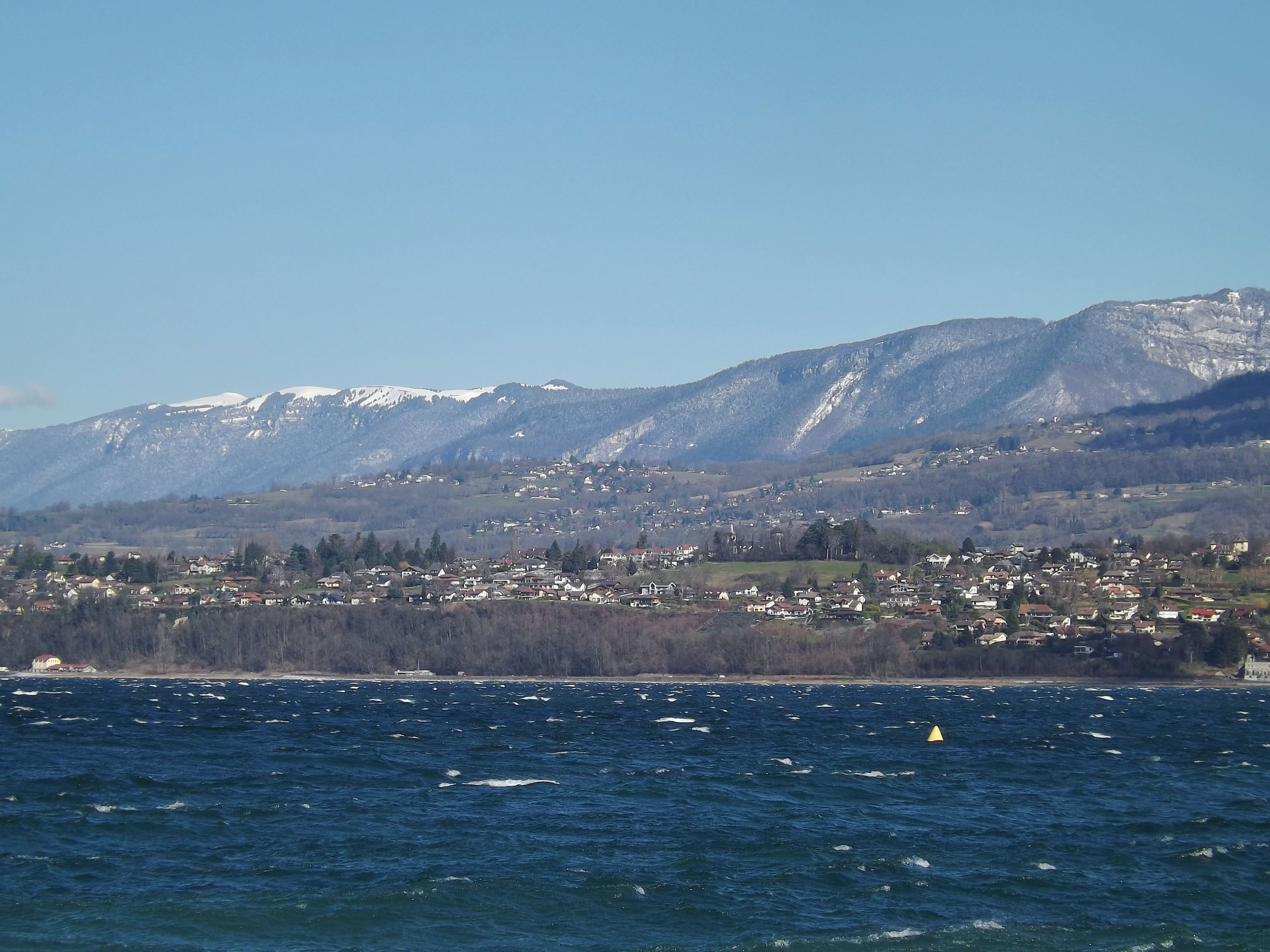 Sight of Tresserve hill and commune above unusual choppy waters on the lac du Bourget lake, during a windy day, in Savoie, France.